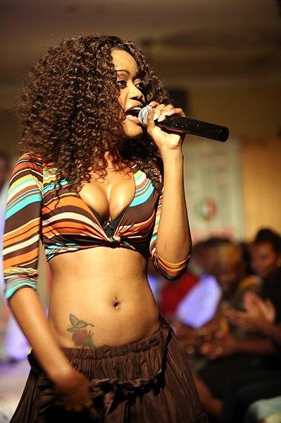 Ray C performing - 2008, Dar es Saalaam, Tanzania.